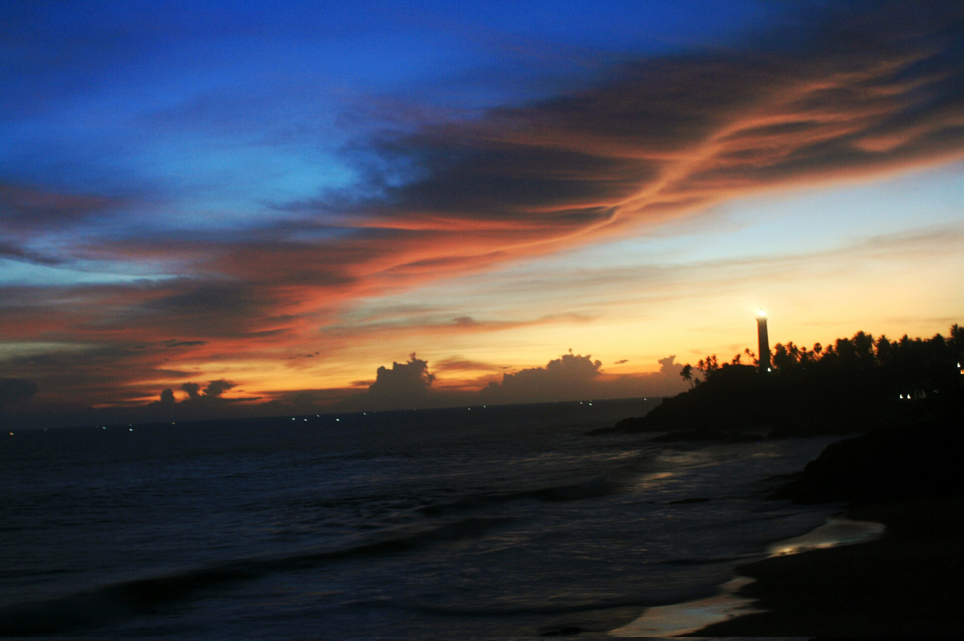 kovalam sunset